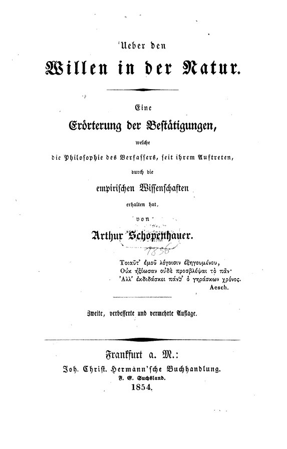 Cover of the 1854 edition of On the will in nature (Über die wille in der natur) by Arthur Schopenhauer found in the Bavarian State Library. Edition by Johann Christian Hermannsche Buchhandlung. Original text: Über den Willen in der Natur: Eine Erörterung d. Bestätigungen, welche d. Philosophie d. Verf., seit ihrem Auftreten, durch d. empir. Wiss. erhalten hat von Arthur Schopenhauer